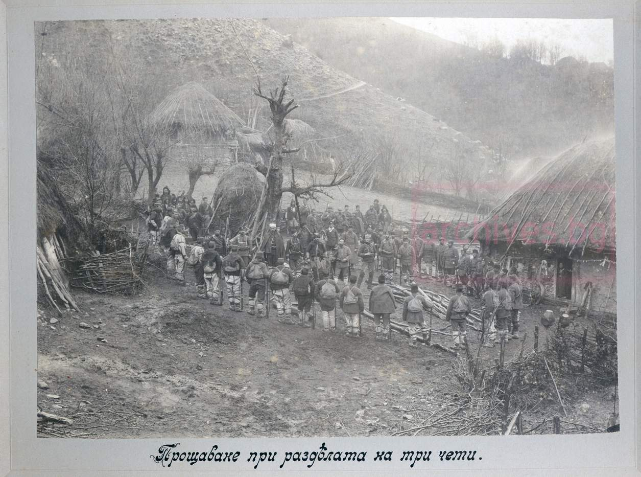 Bulgarian revolutionaries (cheta) of Georgi Trenev, Konstantin Kondov, Pitu Guli, Vancho Sarbaka and others in Macedonia